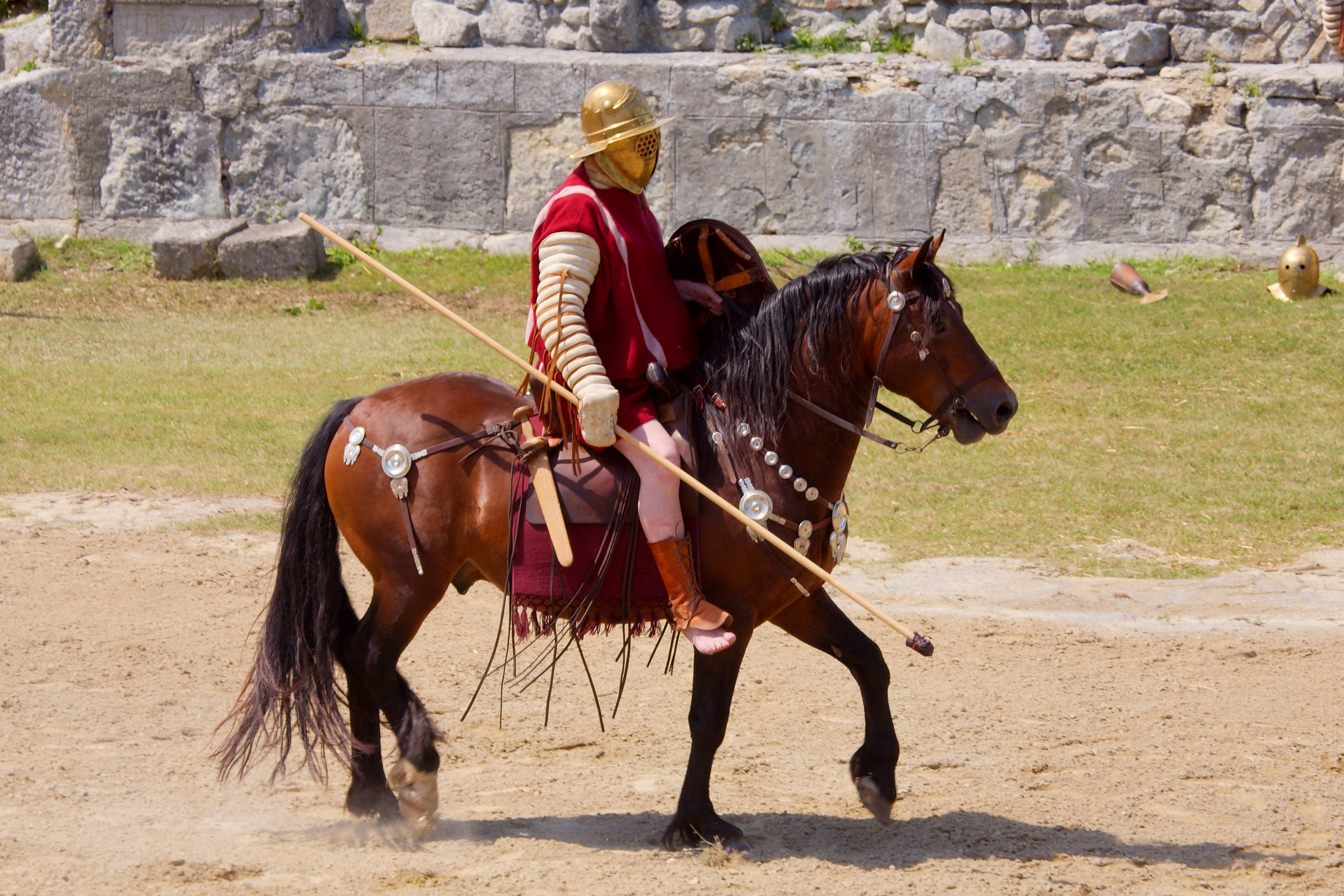 Gladiator "eques" during a show in Carnuntum